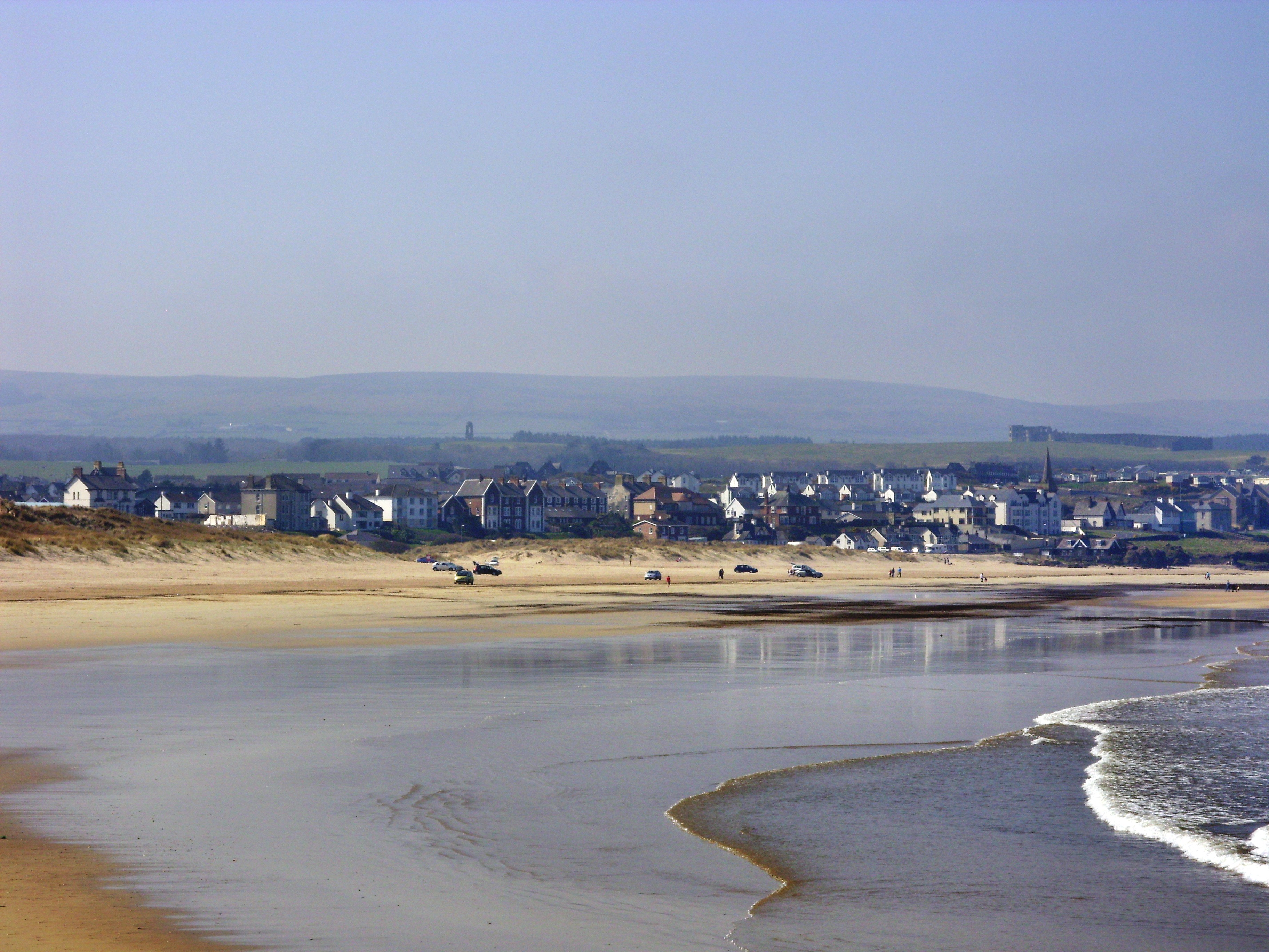 Castlerock, Co. Londonderry, viewed from Castlerock beach.